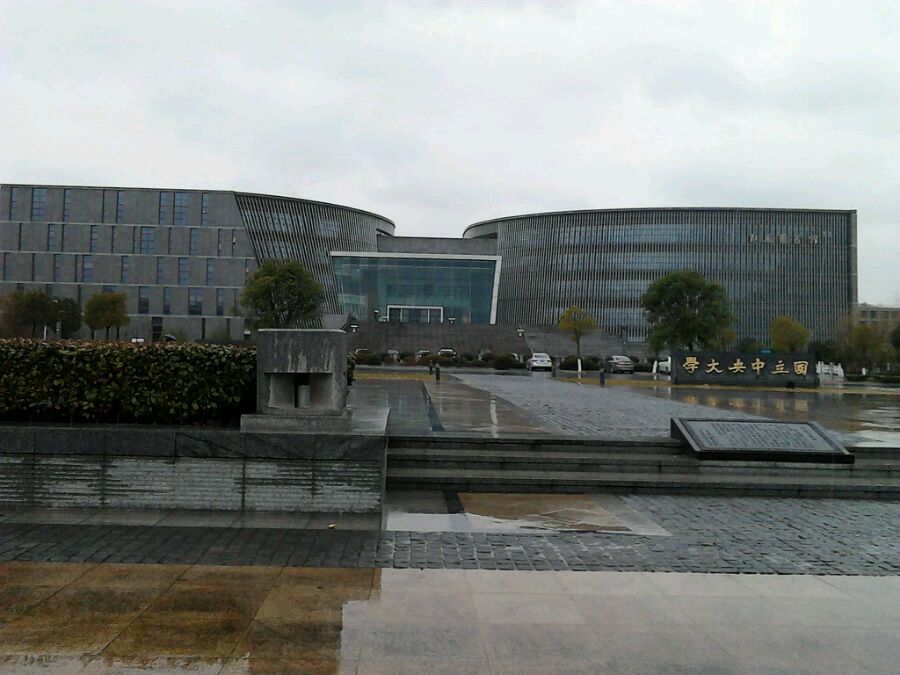 Duxia Library in Nanjing University, Xianlin Campus, built in 2007